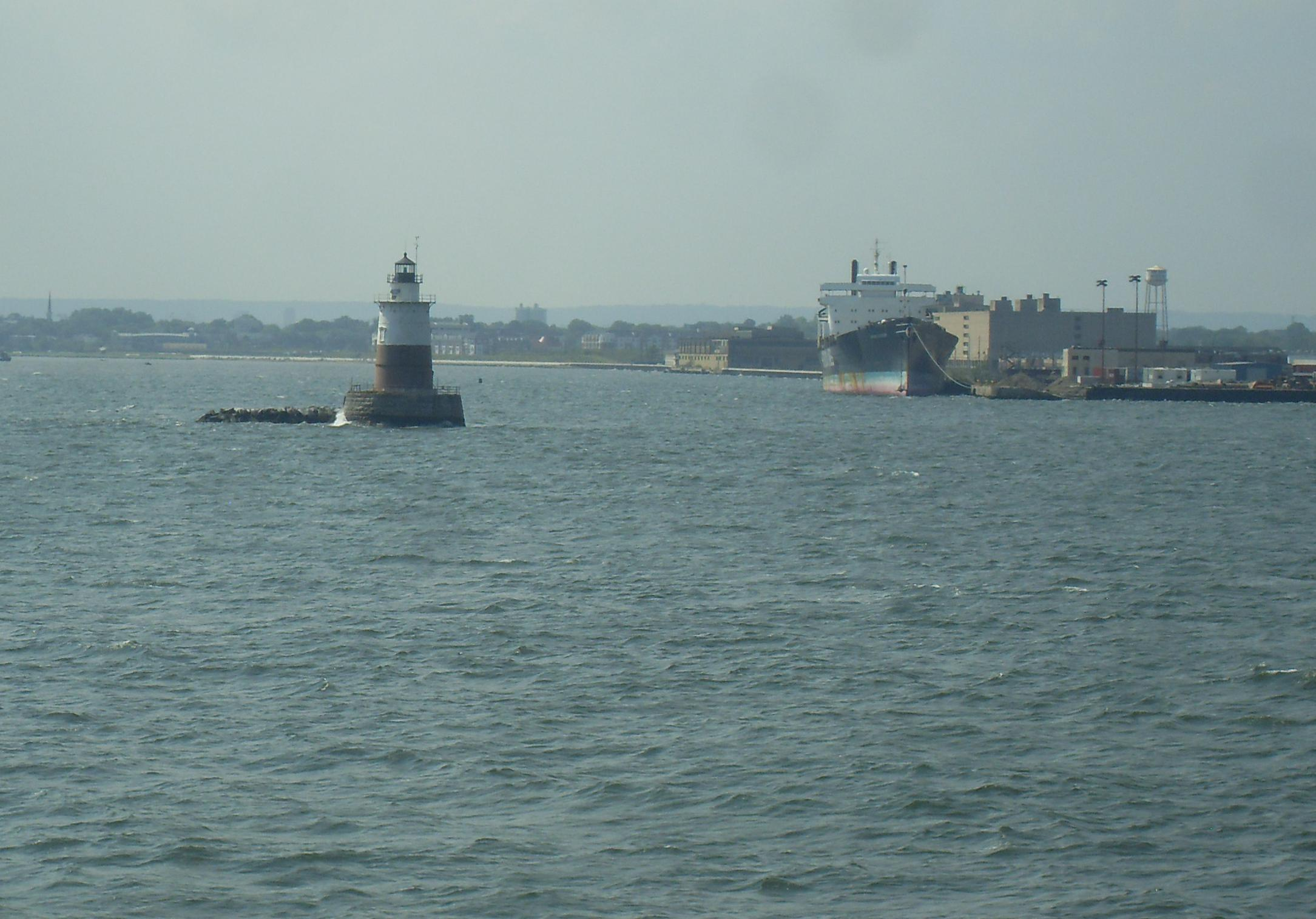 Robbin's Reef Lighthouse from Staten Island Ferry